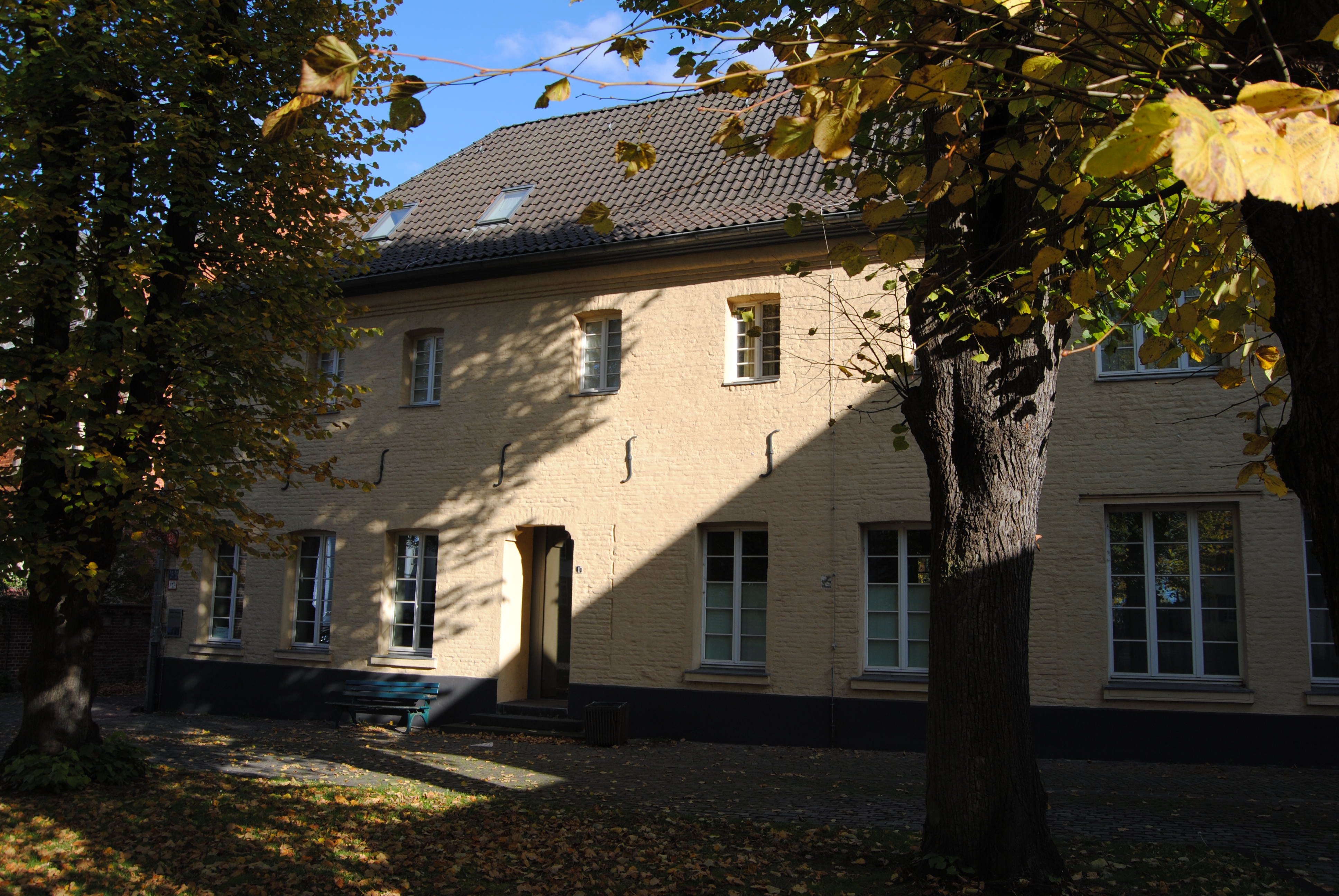 This photograph was taken with a Nikon D3000. This image shows a heritage building in Germany, located in the North Rhine-Westphalian city Düsseldorf.